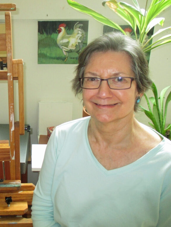 American artist Bonnie MacLean, one of the key poster artists for the Fillmore in the late 1960s.